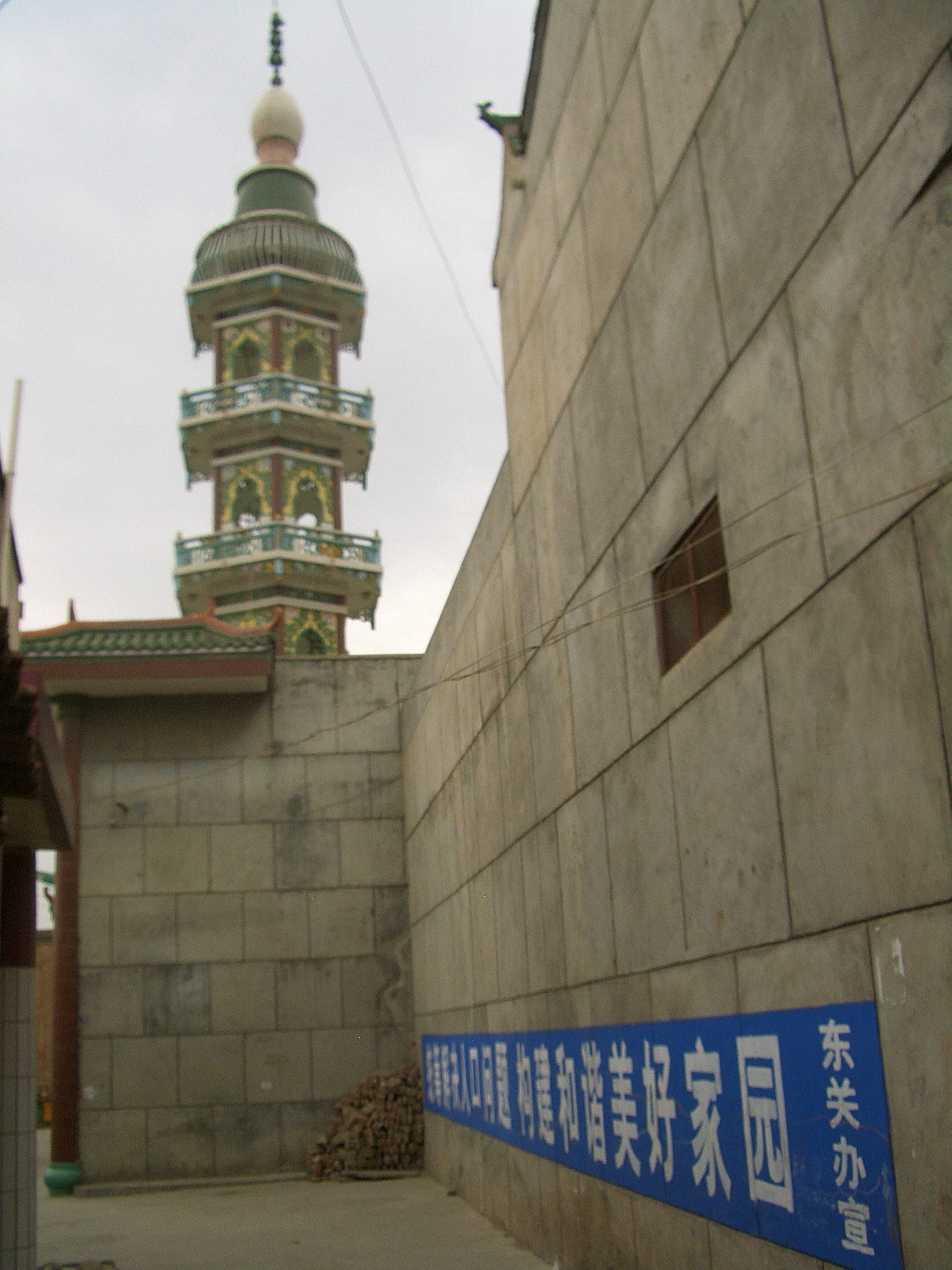 A back street near Hanjia Mosque (Han Family Mosque) in the Dongguan section of Linxia City, decorated with a slogan about "solving the populationm problem" and building a "harmonious society"